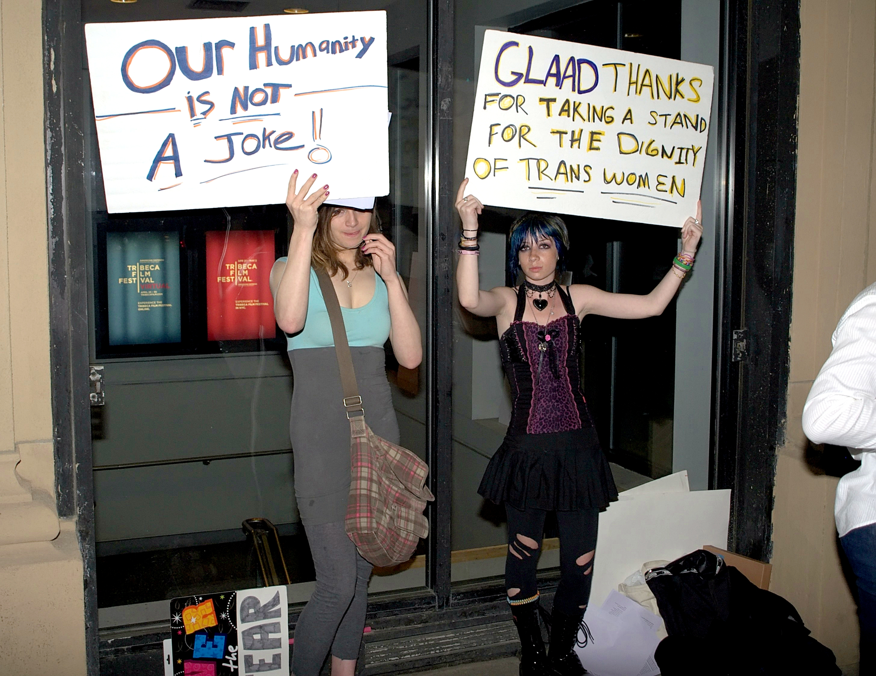 Trans activists protesting at the 2010 Tribeca Film Festival against the premiere of Ticked Off Trannies with Knives, which they said contained offensive portrayals of trans people.